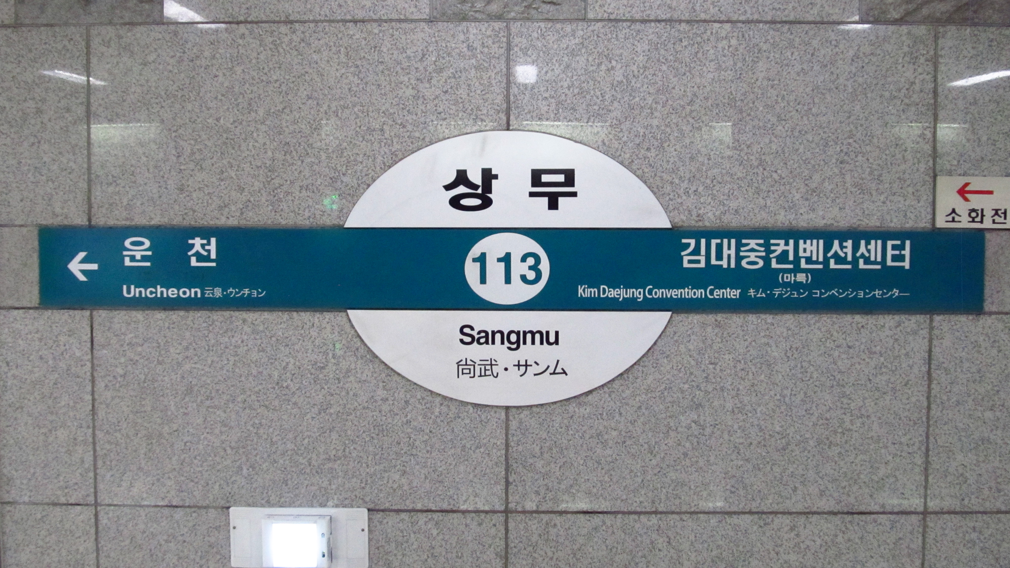 A sign of Sangmu Station on Gwangju Metro Line 1